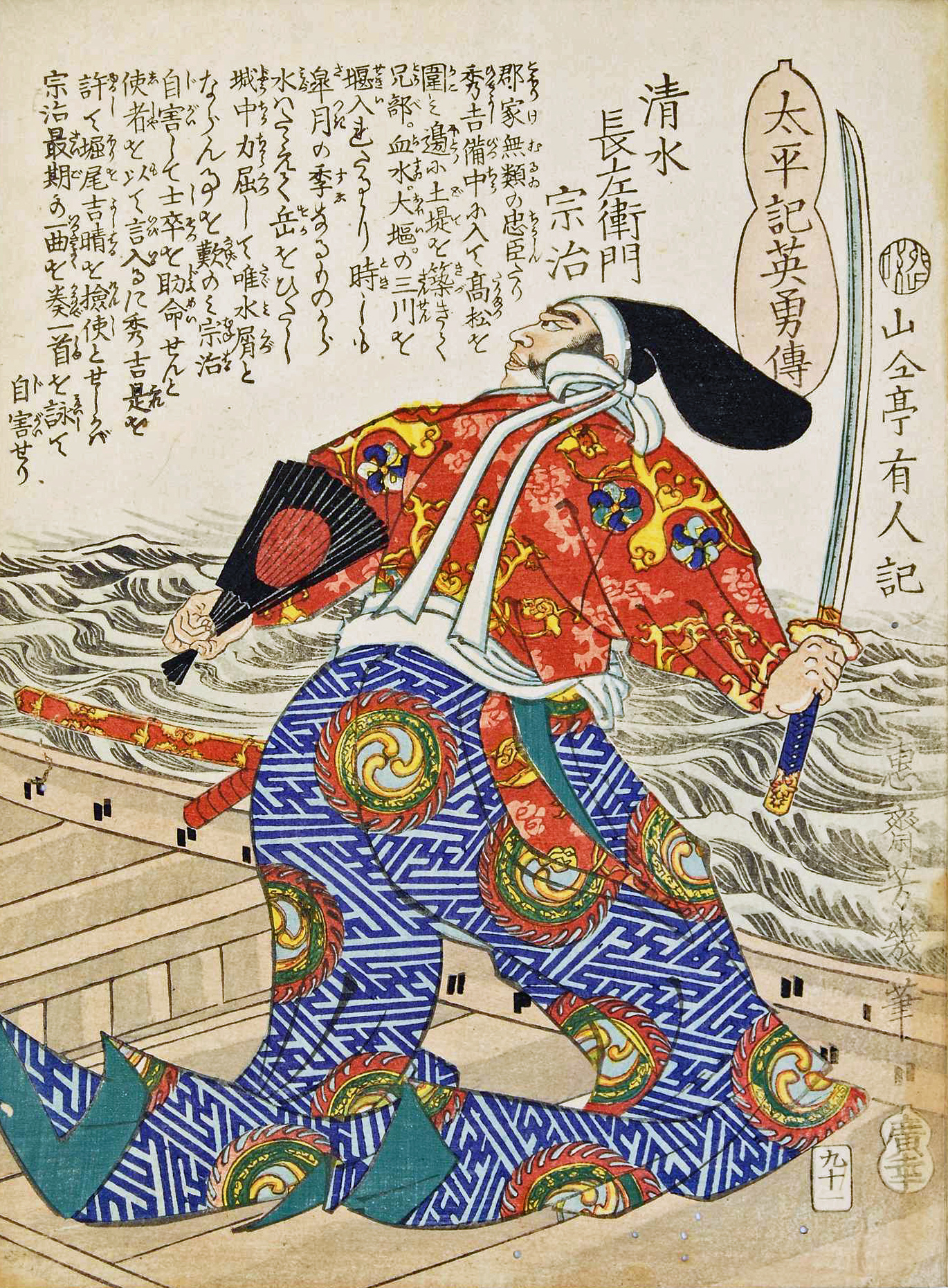 An ukiyo-e of Shimizu Muneharu.